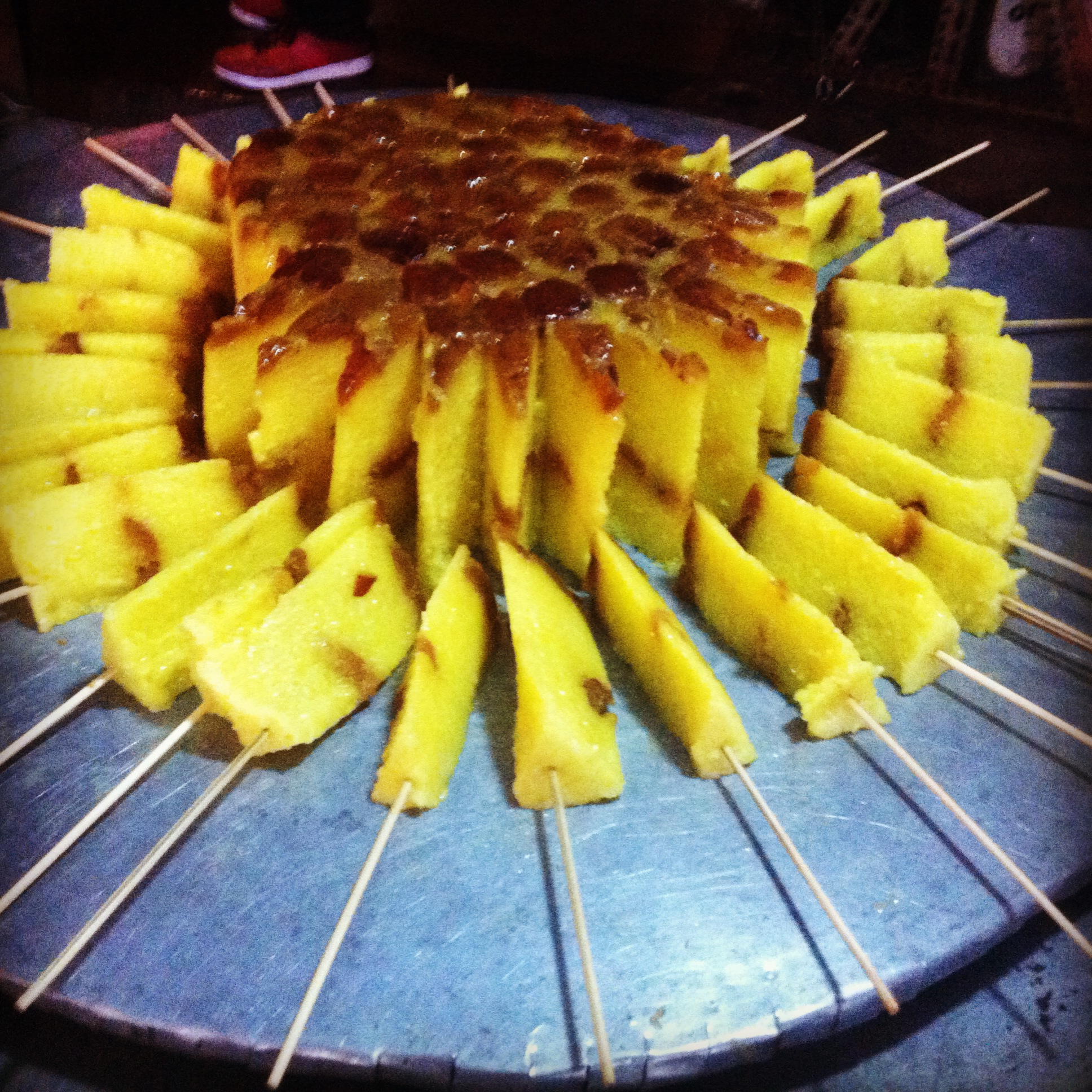 QieGao is a cake made of glutinous rice found in central and western China